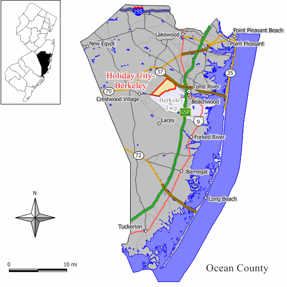 Source: Jim Irwin Original work by Jim Irwin, December 2005.